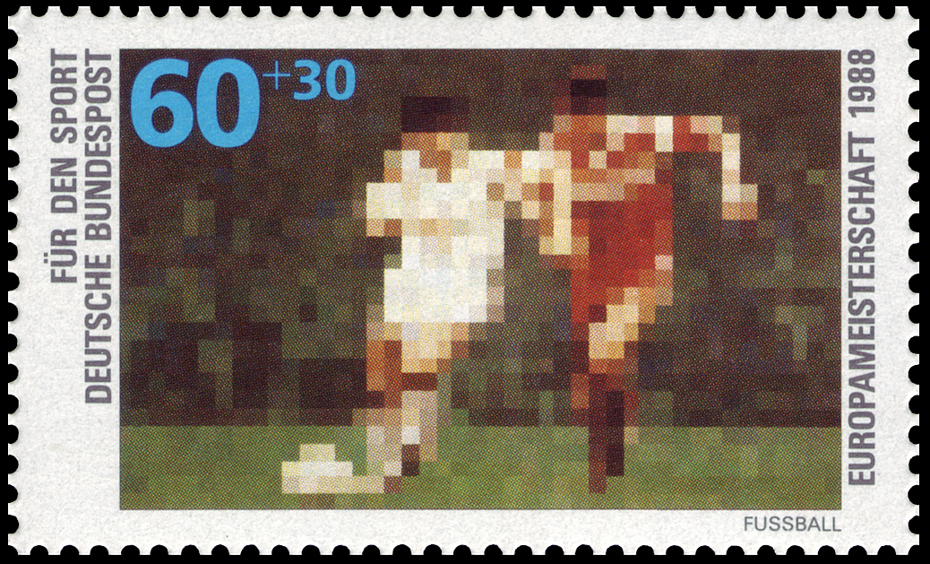 additional fees for German sports, UEFA European Football Championship and Olympic summer games in Seoul